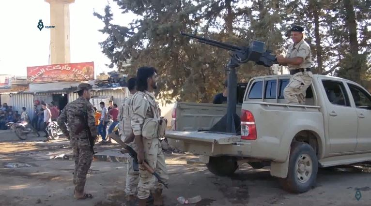 Daraa: Raising The Syrian Revolution Flag In Yadoda And Tal Shihab Towns 2-8-2017